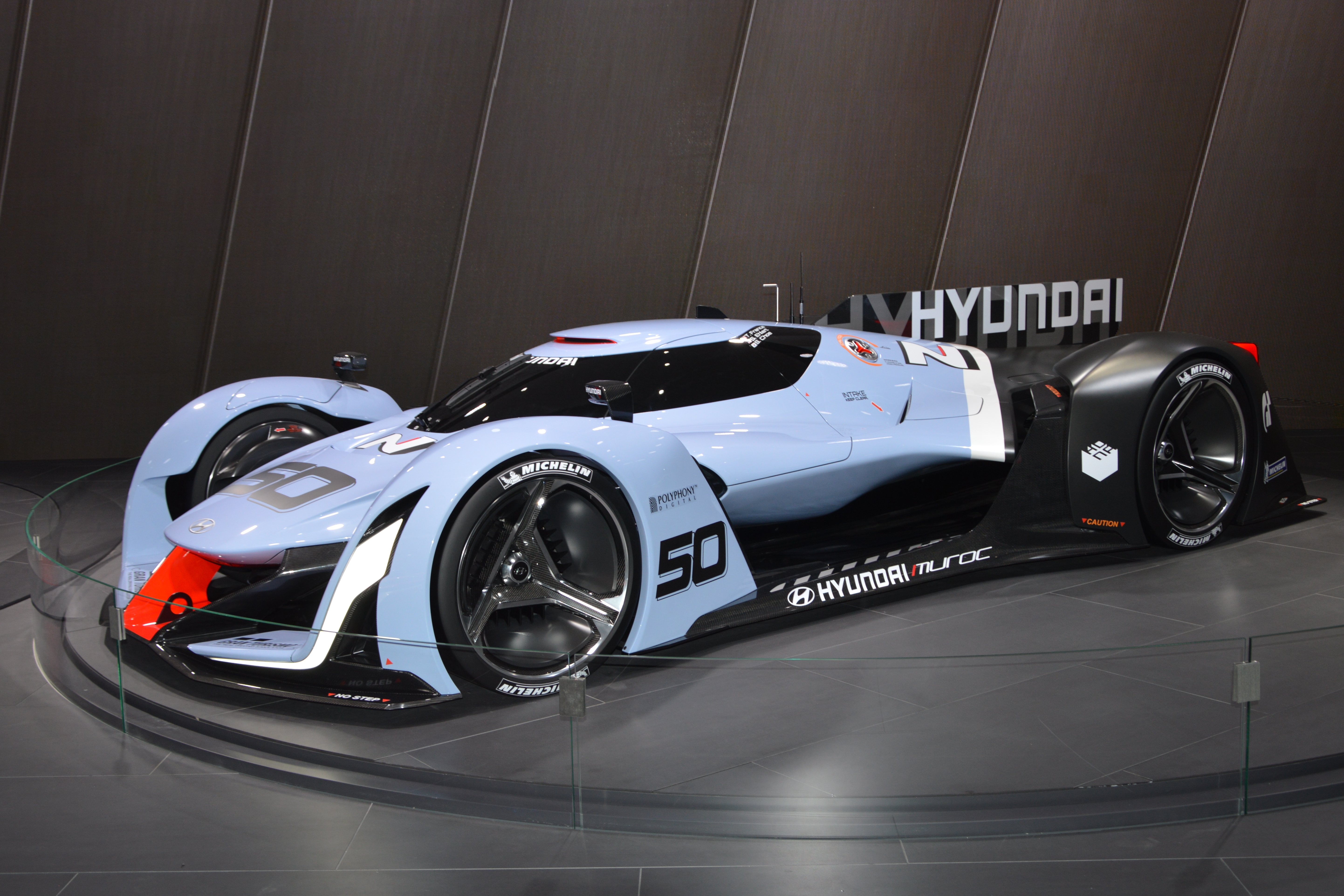 Hyundai N 2025 Vision. Photo taken at exhibition IAA 2015 in Francfort, Germany.